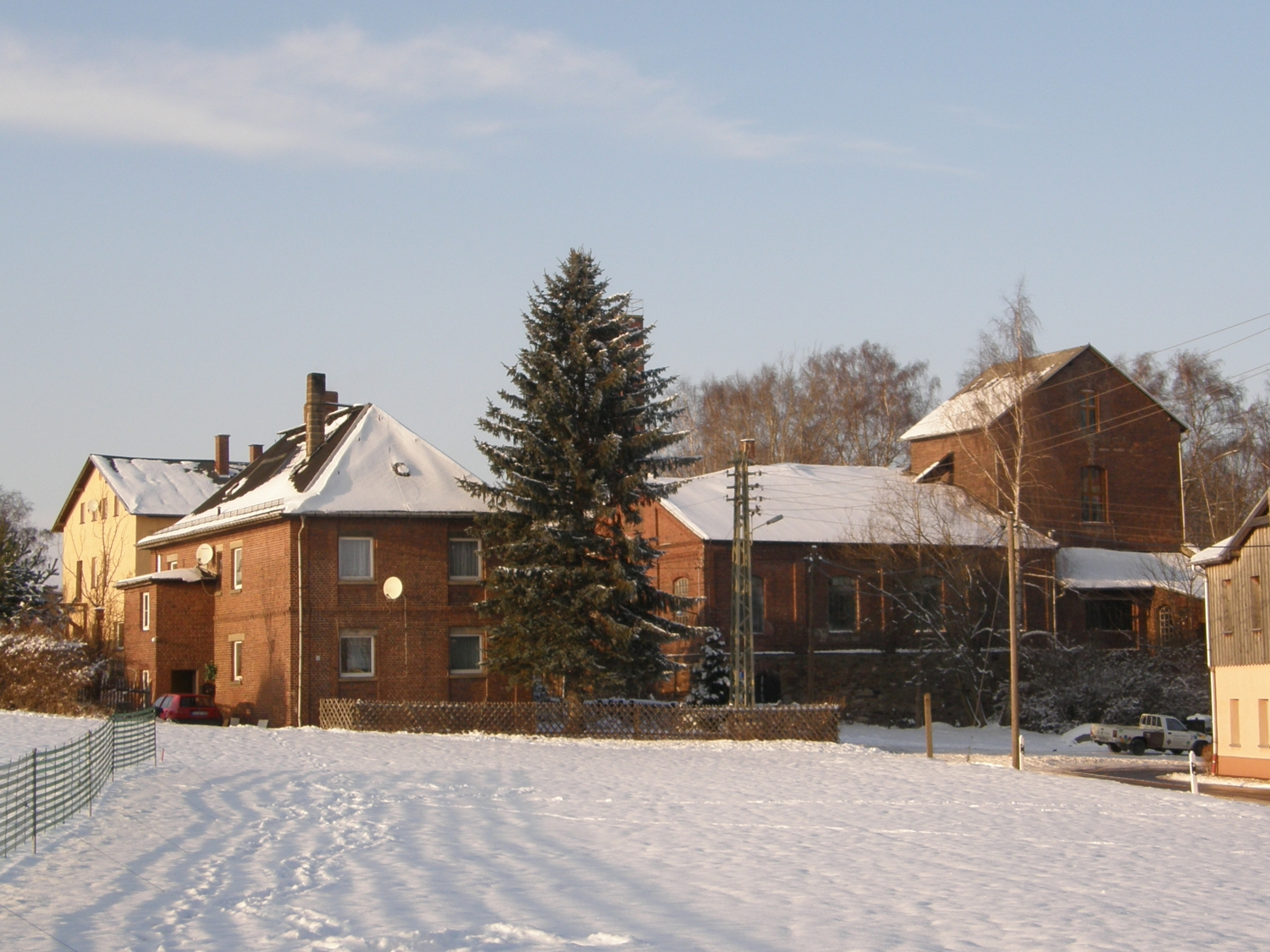 Buildings of the former Gottes Segen hard coal mine in Lugau, Germany